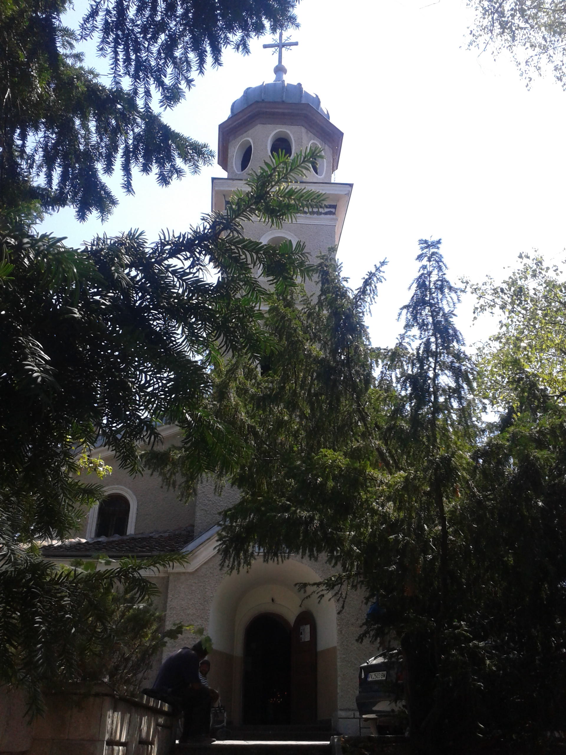 Dormition Church in Ladzjene, Velingrad.